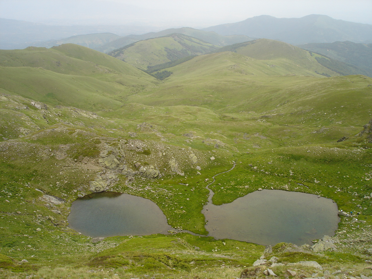 Salakovi glacial lakes on Jakupica, Macedonia